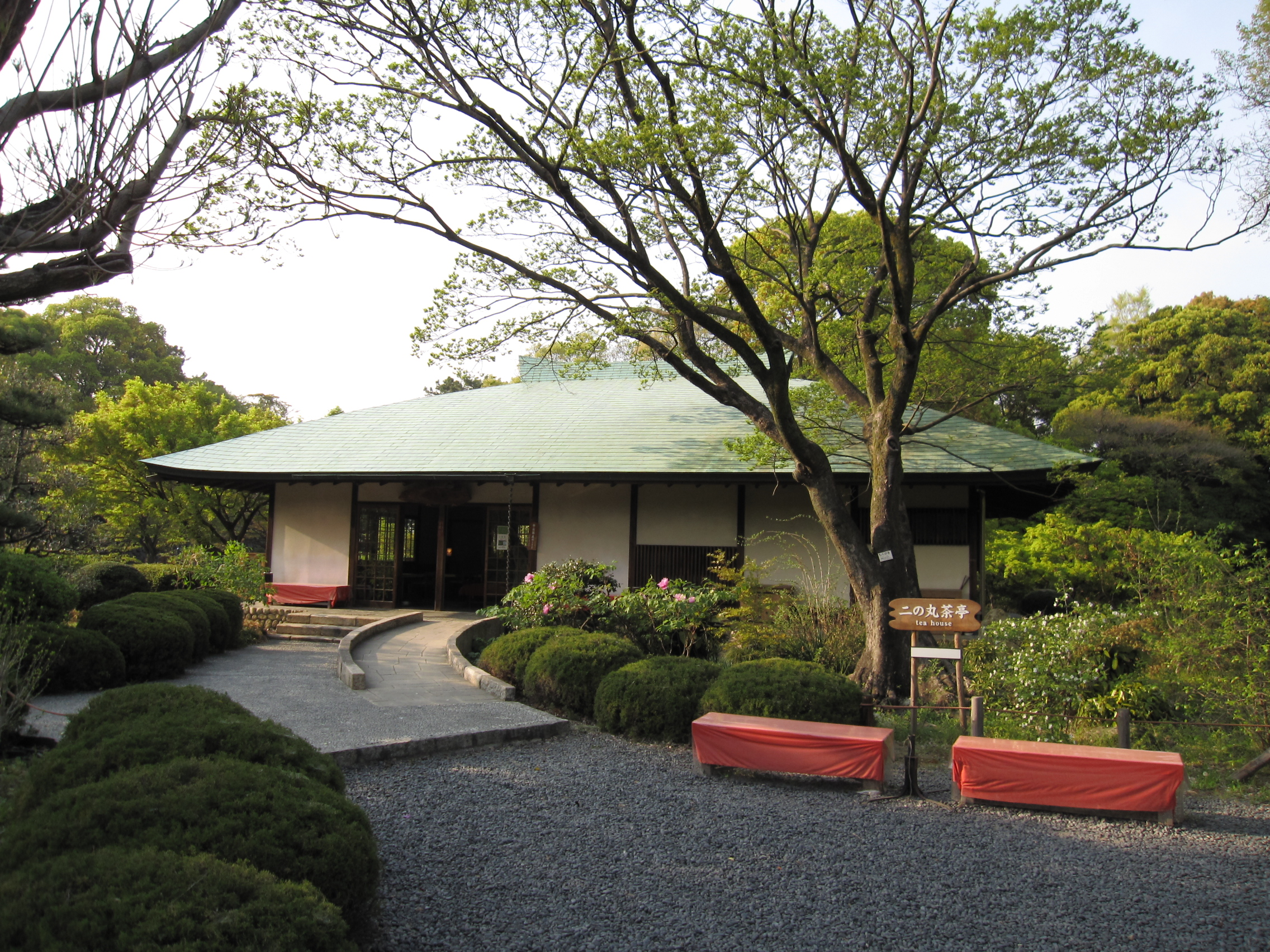 Exterior of Ninomaru Teahouse at Nagoya Castle.